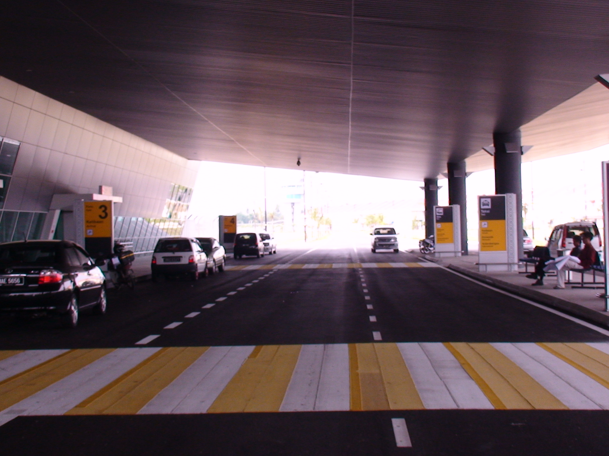 view down the length of the whole terminal entrance